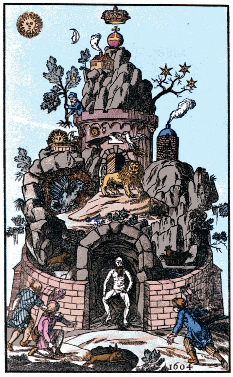 The grave of Christian Rosenkreuz, depicted as the Philosophers' Mountain. The date 1604 signifies the event, not the original date of publication.